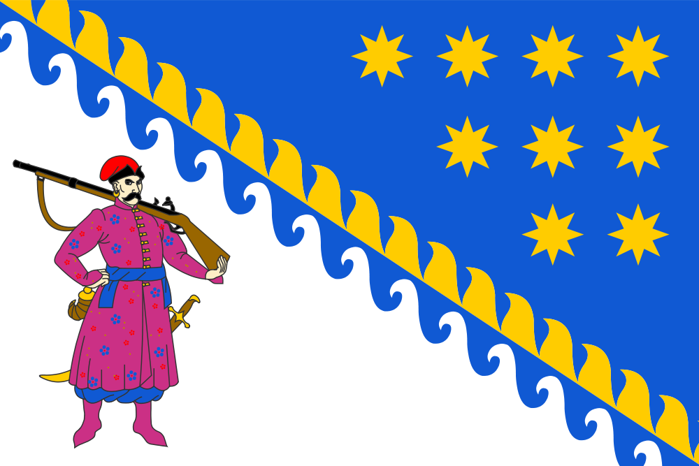 Flag of Dnipropetrovsk Oblast, Ukraine